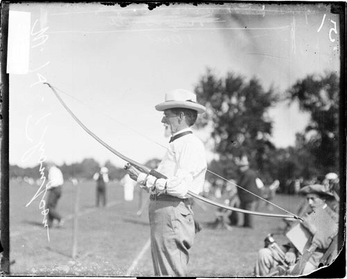 Archer William Thompson. Chicago Daily News negatives collection, SDN-053257. Courtesy of the Chicago Historical Society. Taken in 1907 (